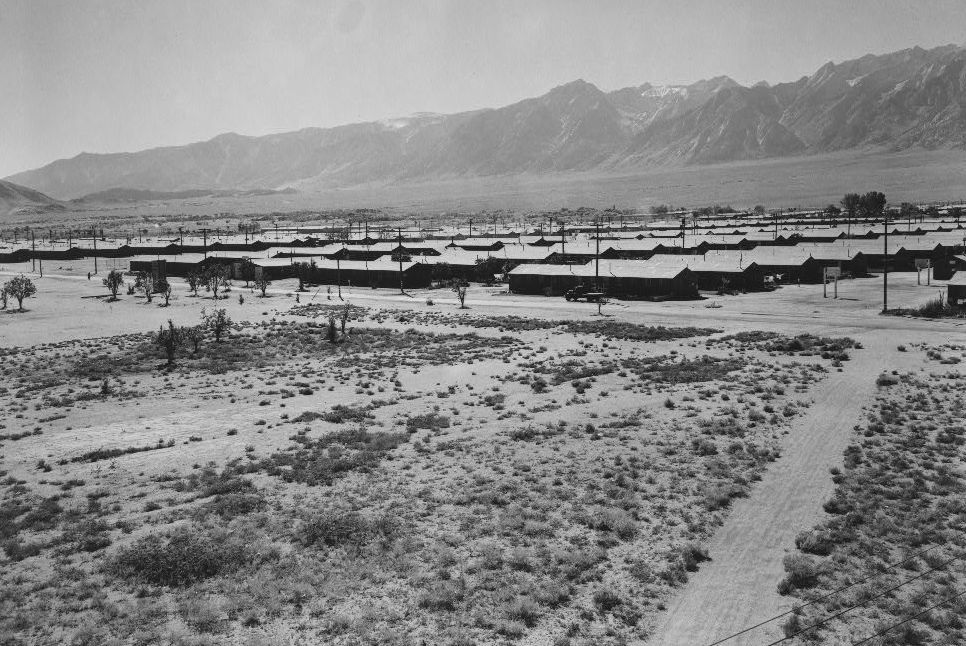 Manzanar War Relocation Center, mid-1940s, Picture taken from guard tower, summer heat, view SW